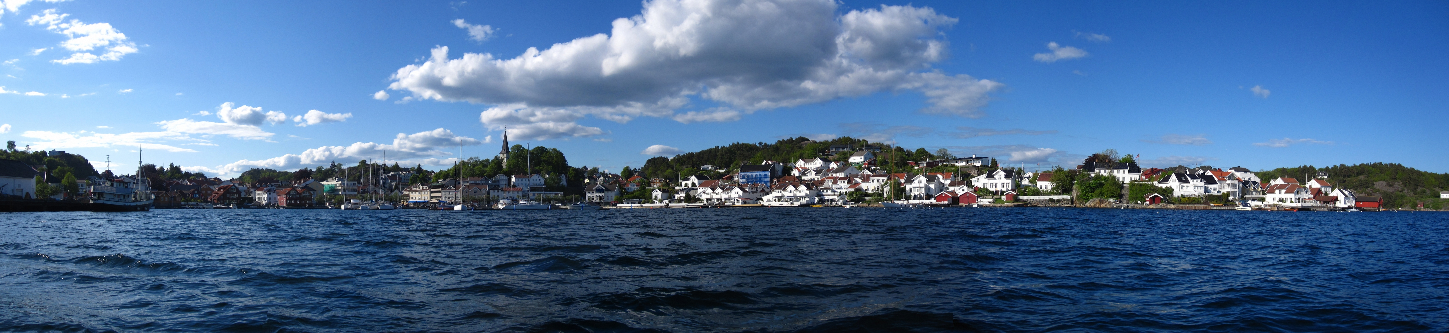 Panoramic of Grimstad taken from a boat in the harbour.